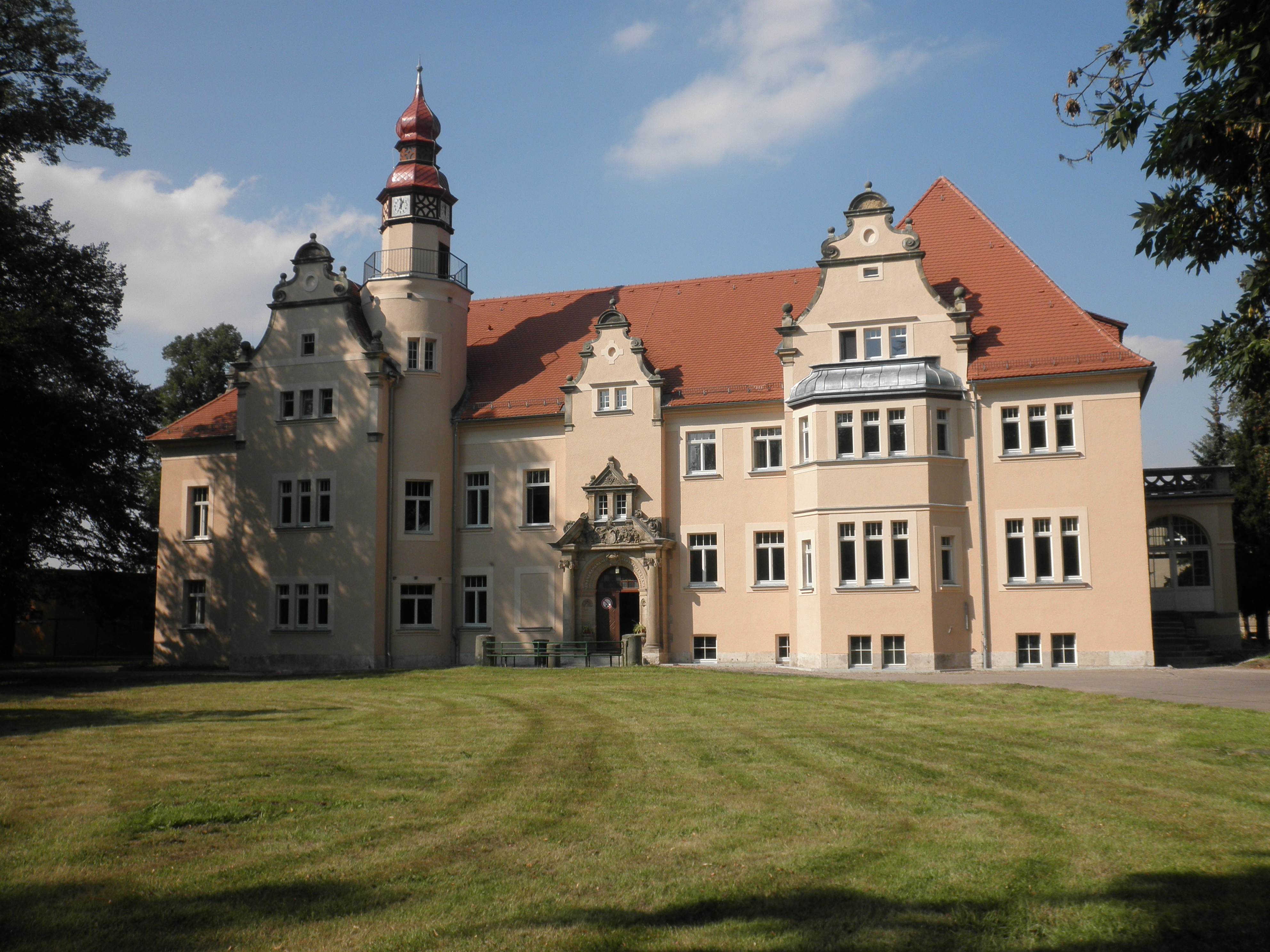 Castle in Schwerstedt (Weimar) in Thuringia